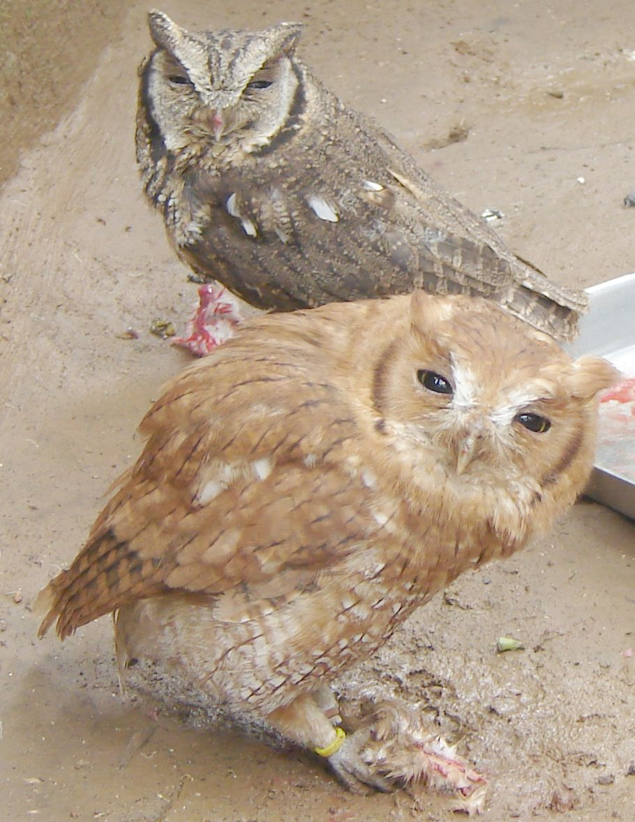 Photo of Megascops choliba taken during inspection of Animal Reception Center. Despite the colour differences of the two owls, they are of the same species, it's a normal variation.